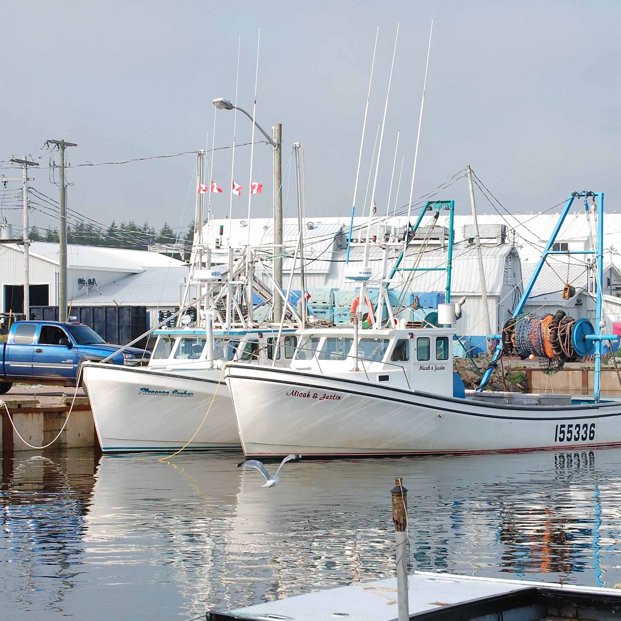 View of fishing vessels at Murray Harbour Wharf, Murray Harbour PE Canada